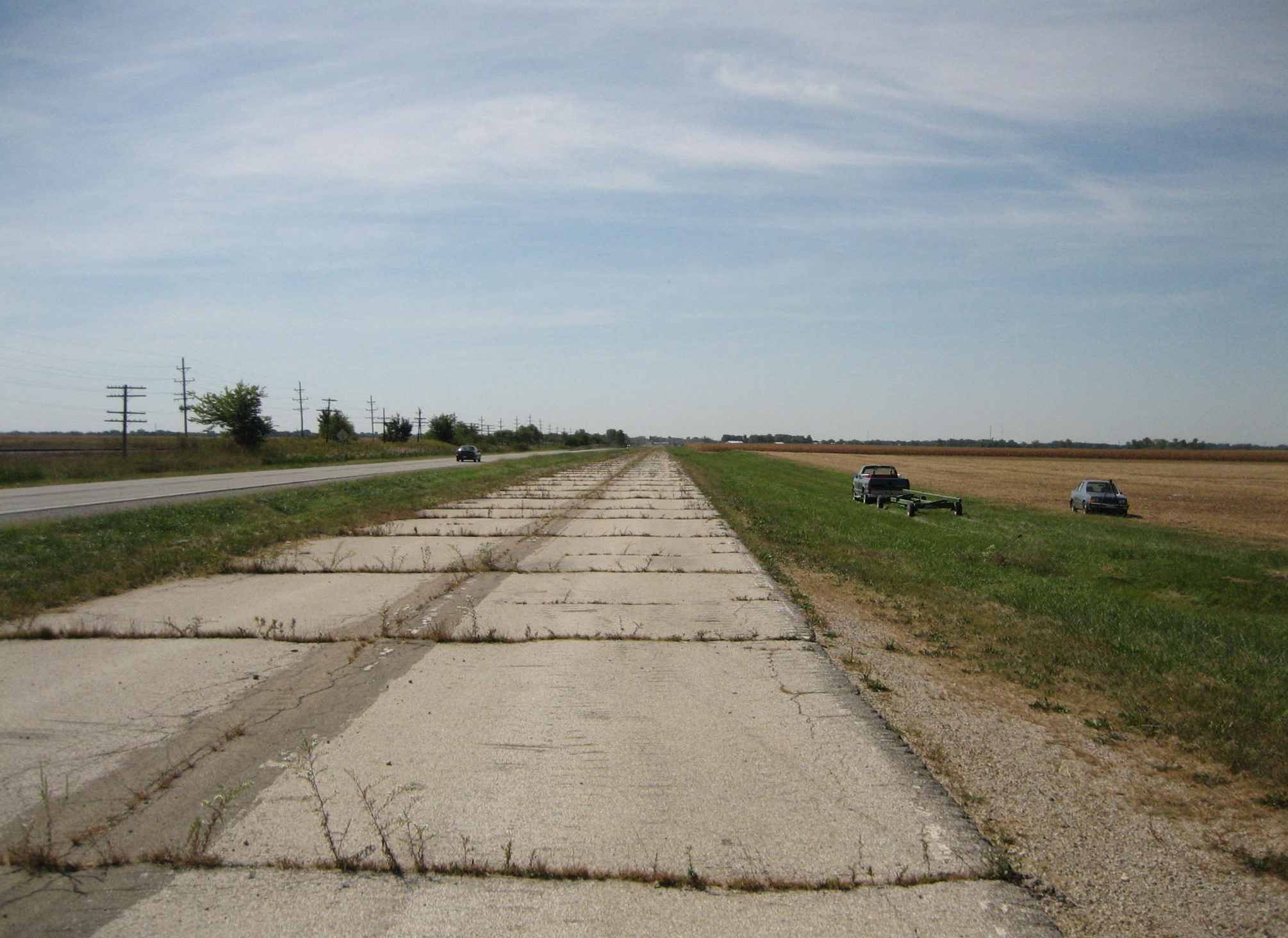 U.S. Route 66, portion of segment from Cayuga to Chenoa, Illinois, United States. North of Cayuga, Illinois. U.S. National Register of Historic Places.